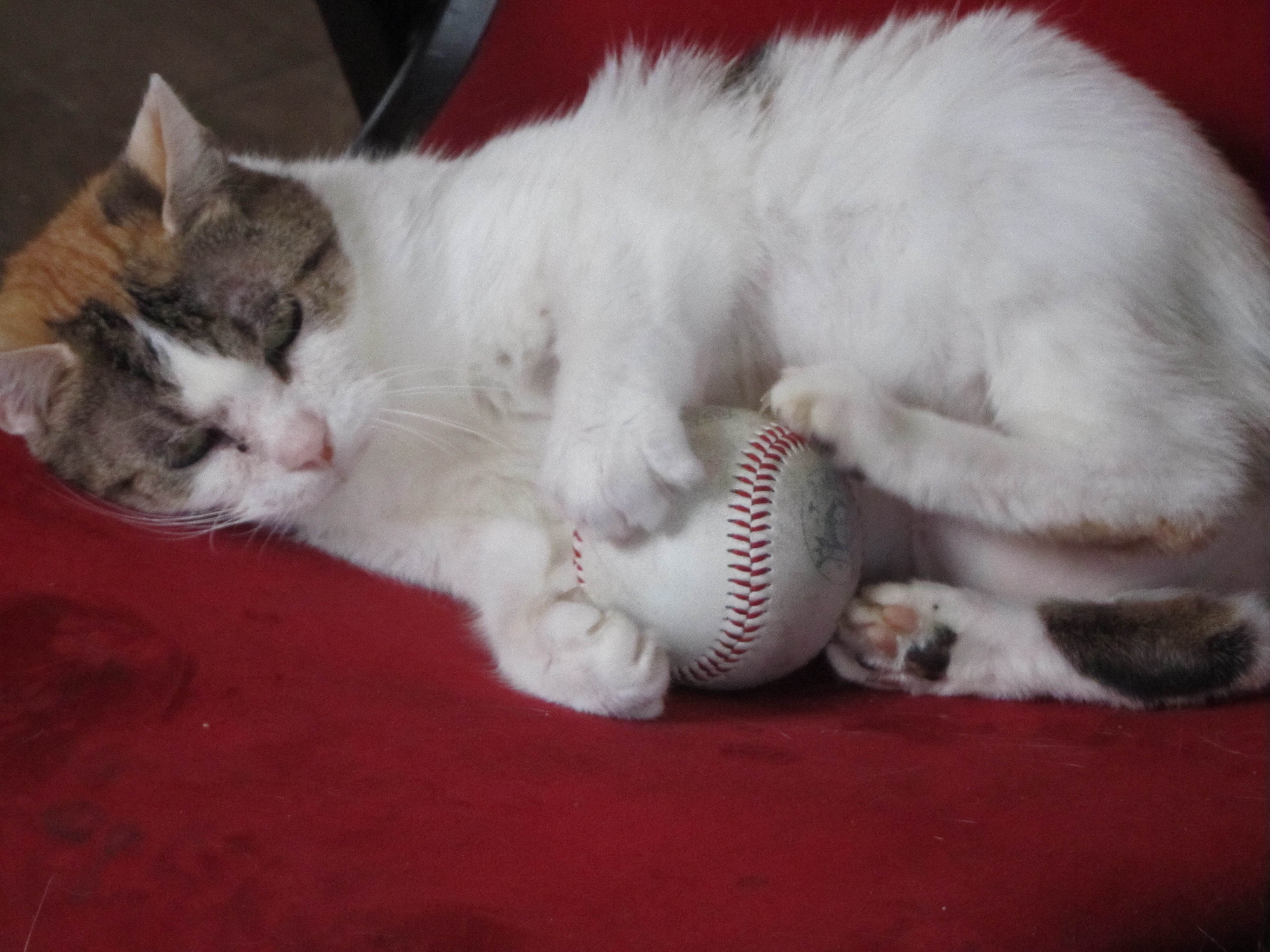 Manx cat holding baseball